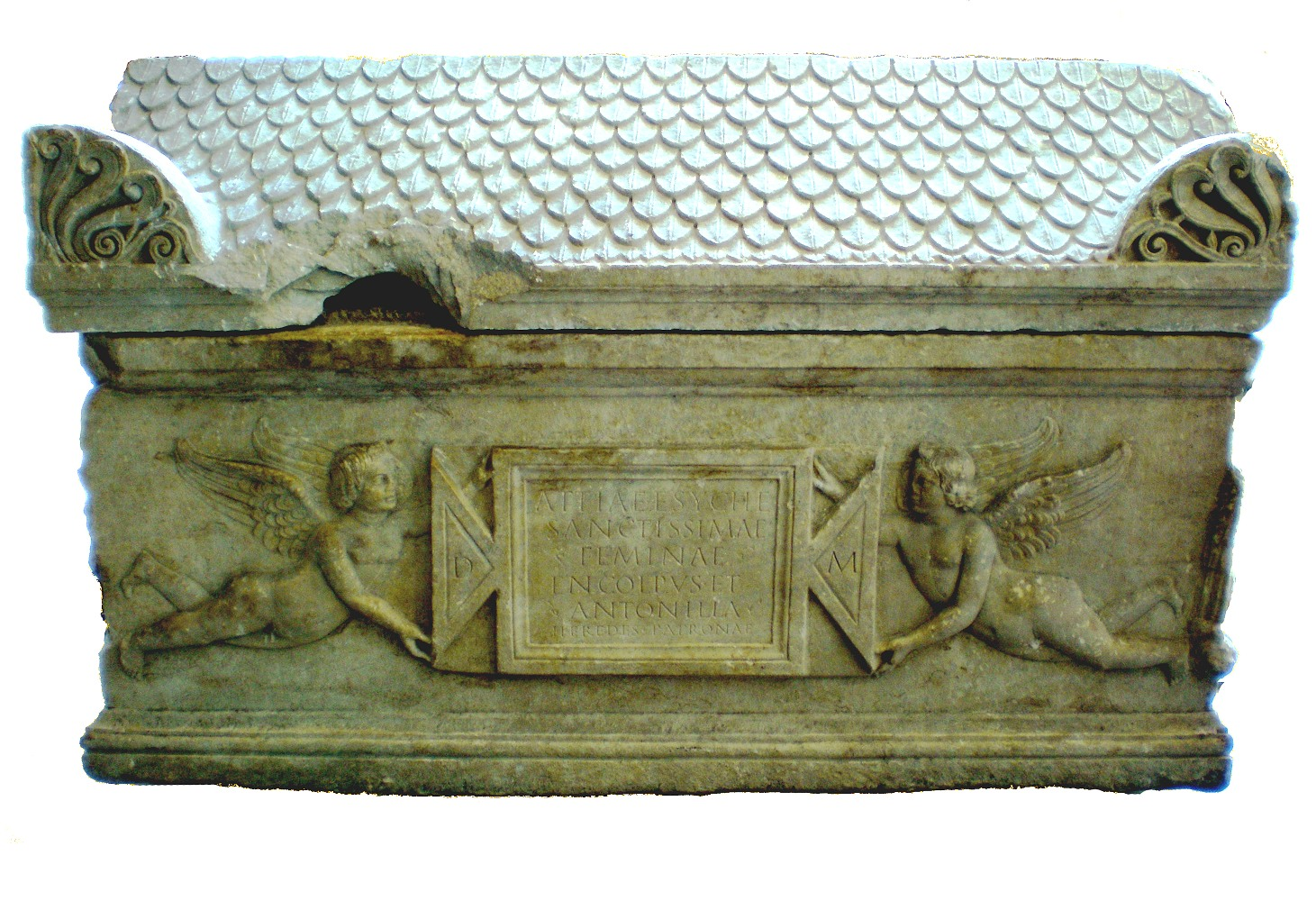 Sarcophagus of Attia Esyche